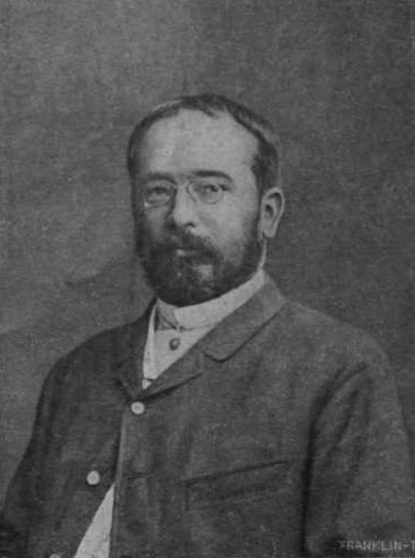 Lajos Csávolszky